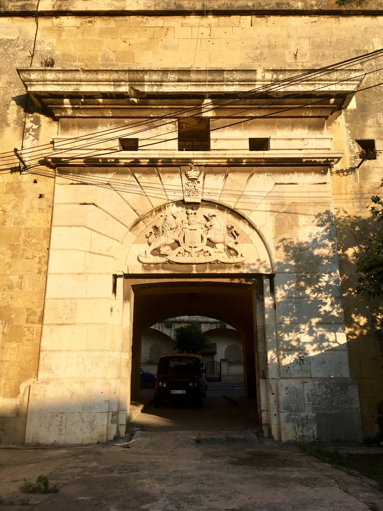 Fort Verdala entrance gate, June 2018